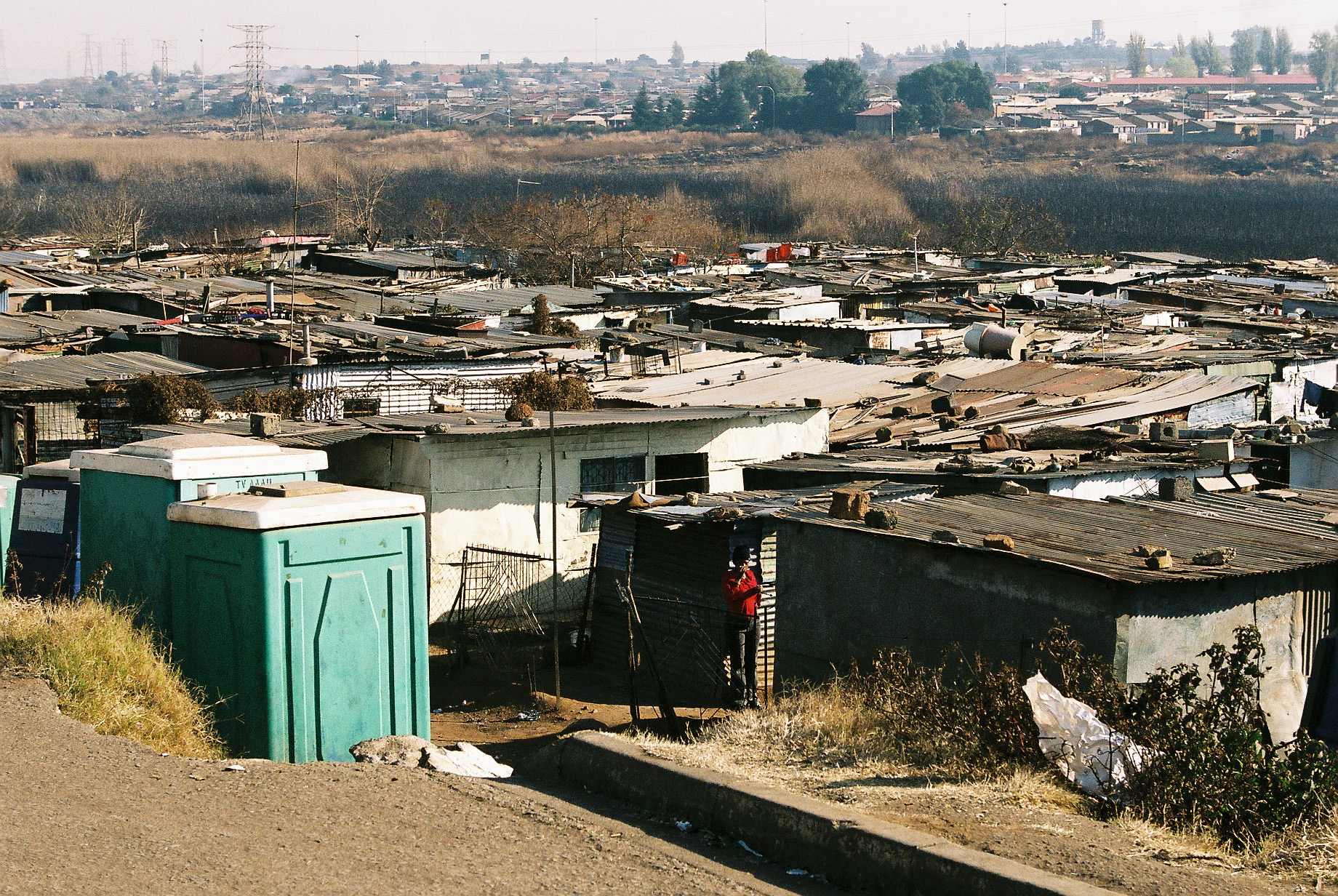 Kliptown, one of the poorest quarters of Soweto